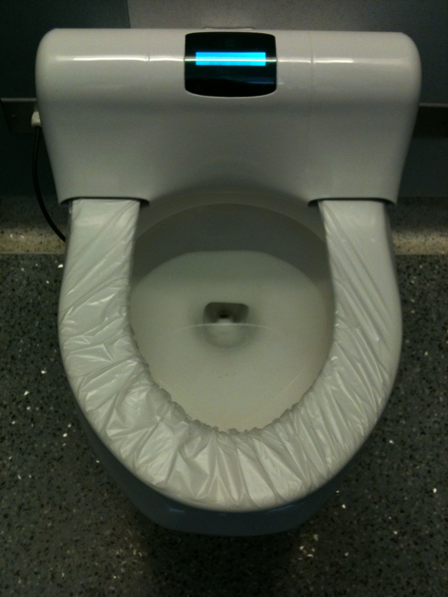 High-tech toilet with automated plastic toilet seat cover in Chicago O'Hare International Airport